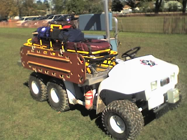 Gator SJA1. I took this picture in 2006.